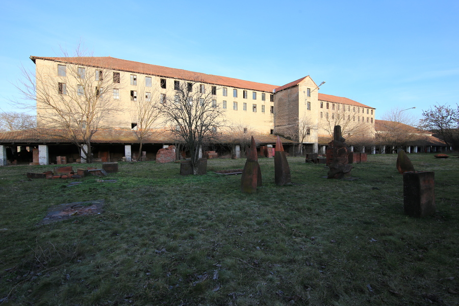 Factory Toza Marković Kikinda Srpski (latinica): Fabrika Toza Marković Kikinda